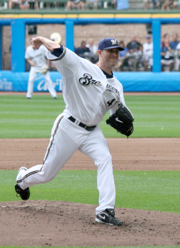 Braden Looper pitches a game at Miller Park